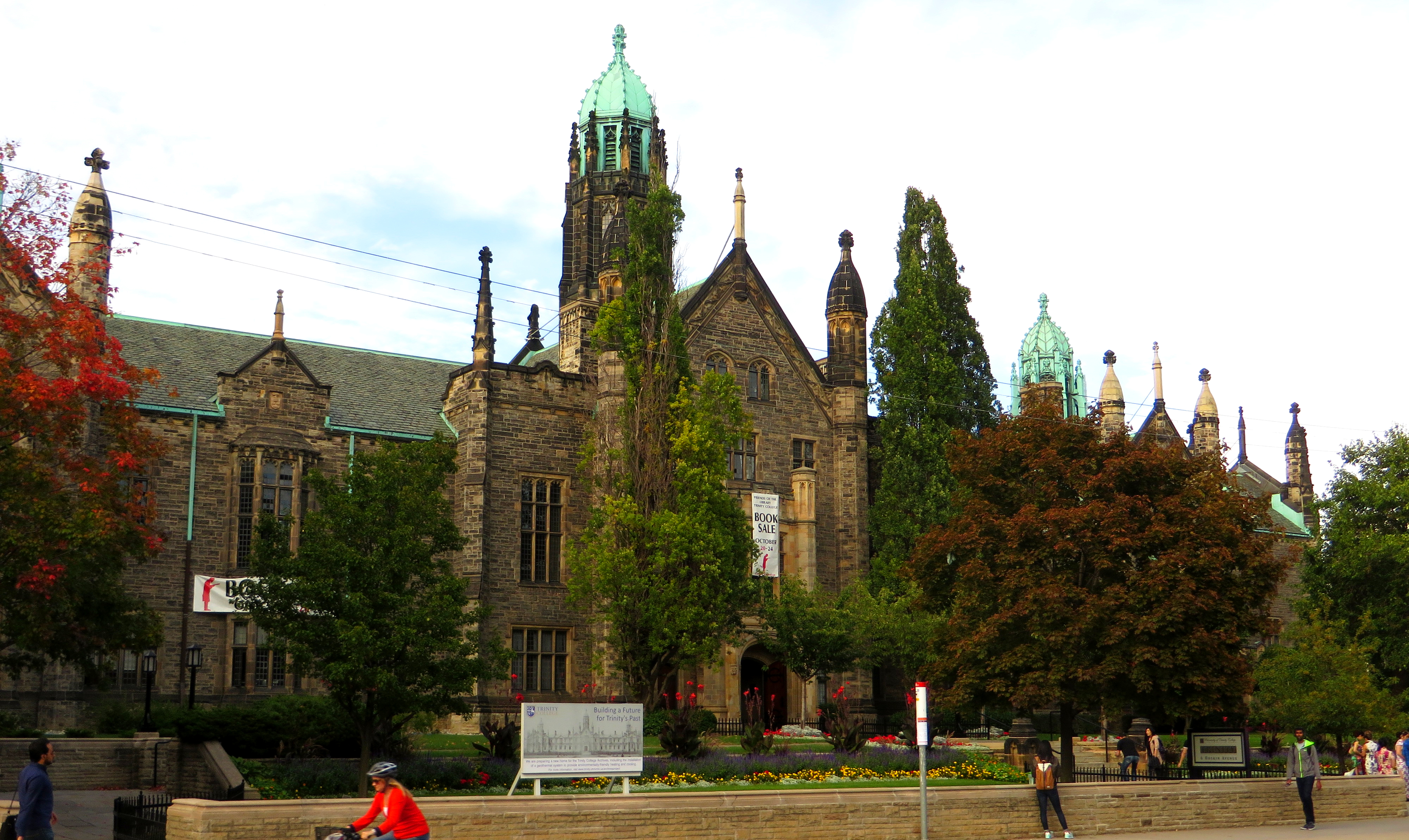 View of Trinity College, Toronto, from Hoskin Avenue